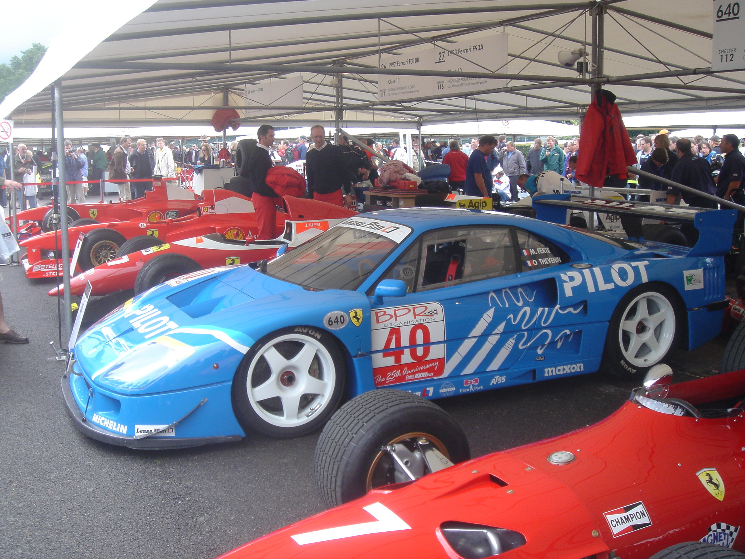 Goodwood Festival of Speed 2007 Ferrari F40 LM (1995) in F1 paddock